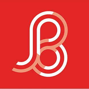 School Badge from the official site